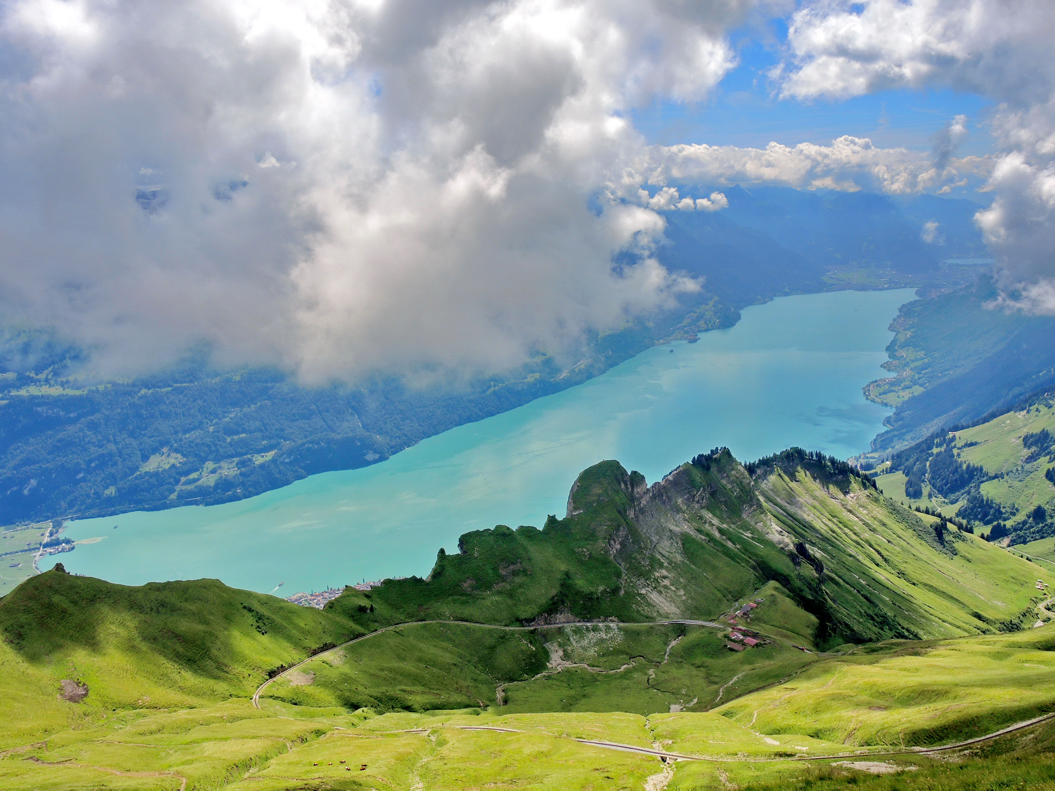 Brienzersee as see from nearby the Brienz Rothhorn Bahn (BRB) top station on Rothorn in Switzerland